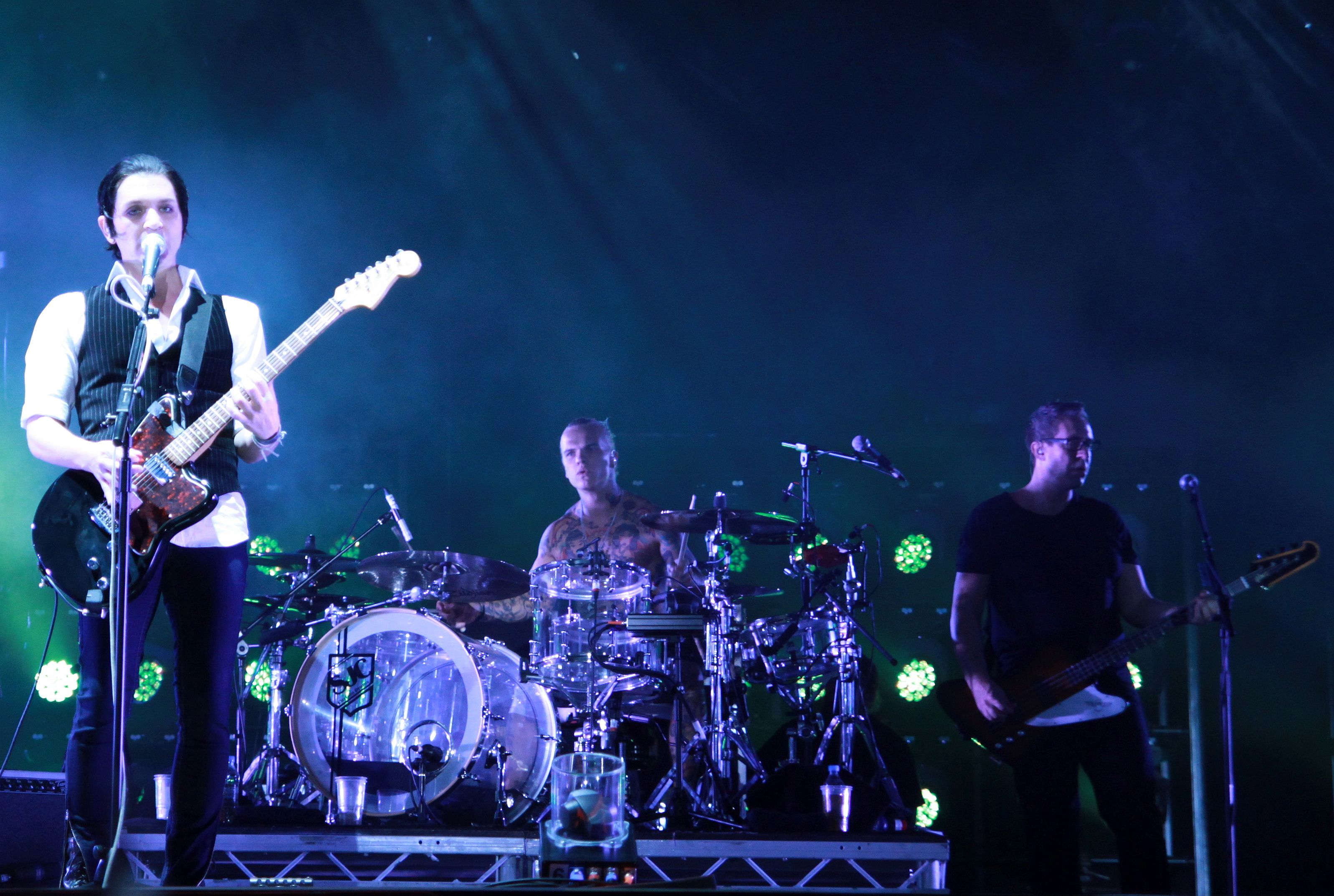 Crop of File:Placebo in Cracow, Poland, 2012.jpg